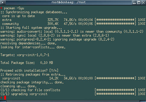 Screenshot of pacman(8), package management utility, after running syncronize, upgrade and install operations on a local Arch Linux system.